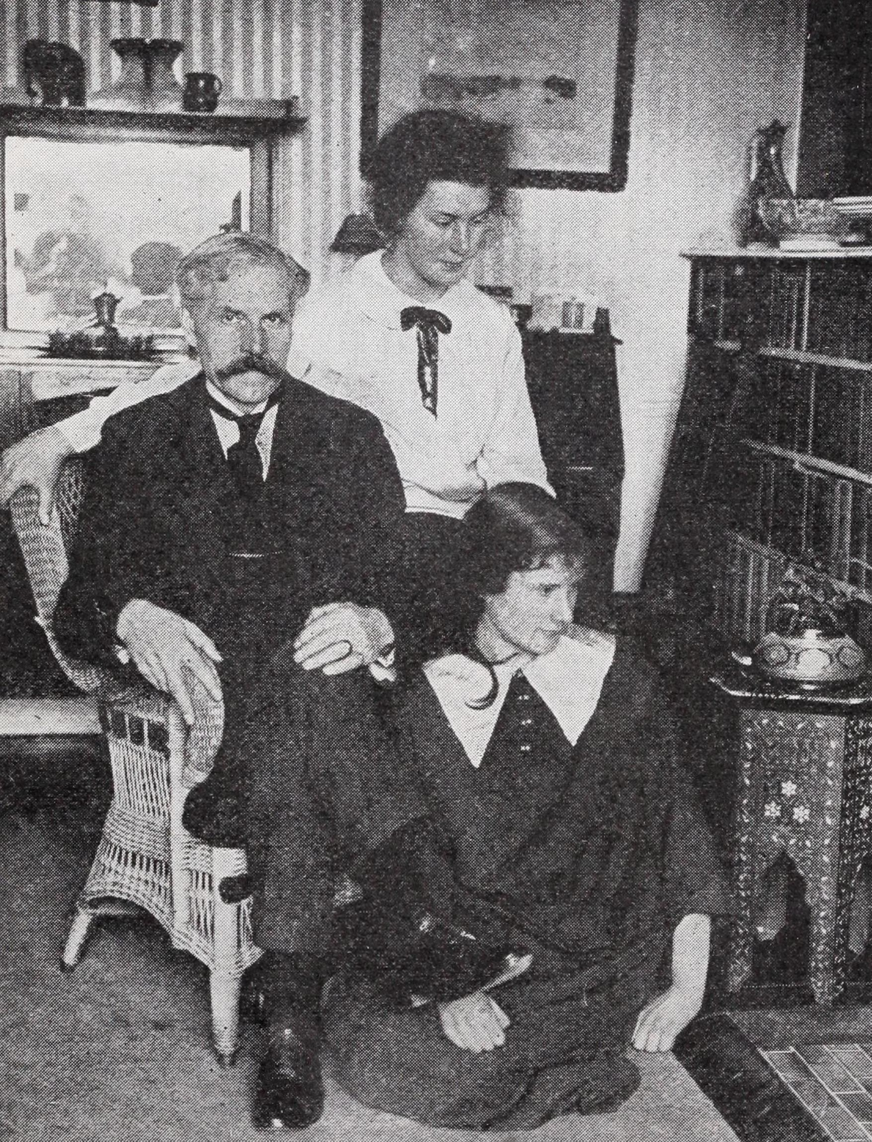 Ramsay MacDonald and his Daughters